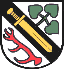 Coat of Arms of Volkerode